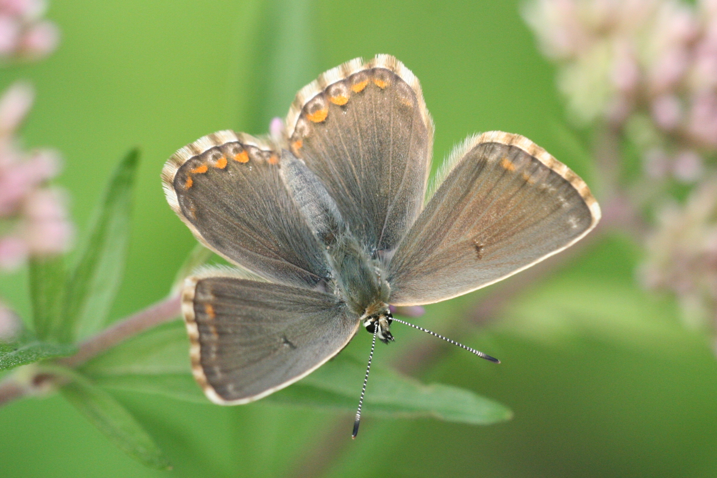 Female Chalkhill Blue butterfly (Polyommatus coridon), photographed in Lehrensteinsfeld